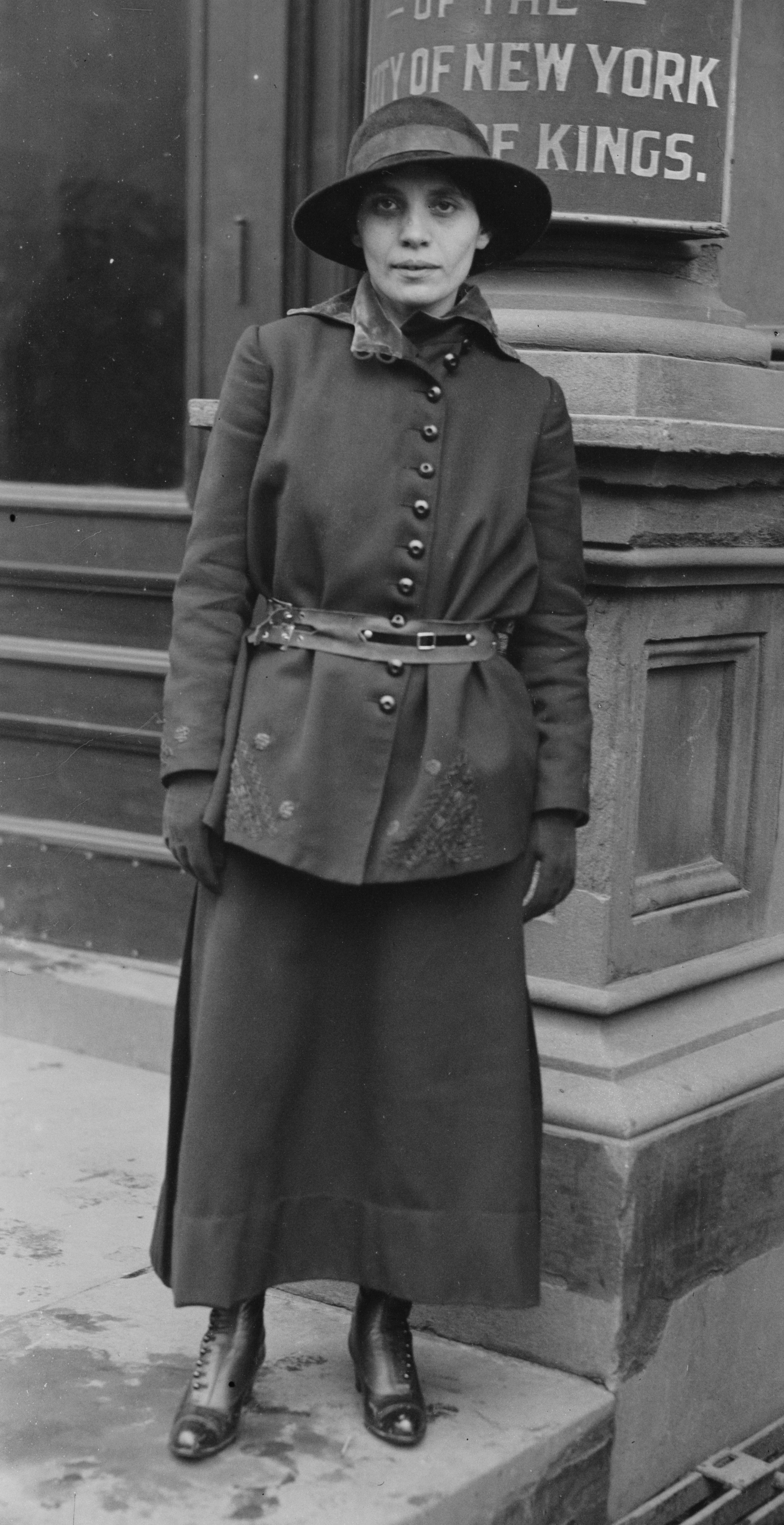 1917 photo of Fania Esiah Mindell outside the courthouse, New York, NY.